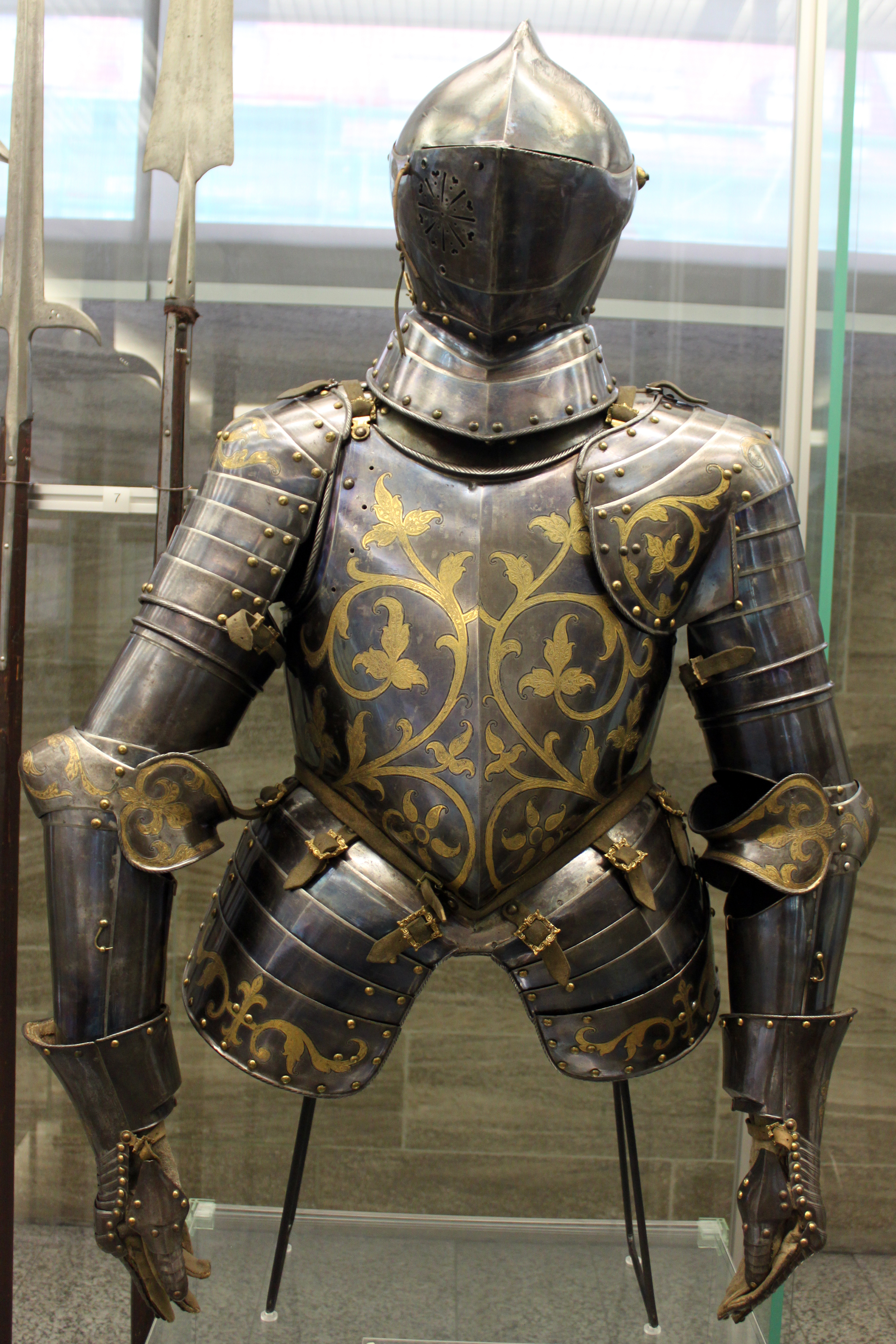 Plate armor for the tournament on foot, Augsburg, 1591; Germanic National Museum in Nuremberg